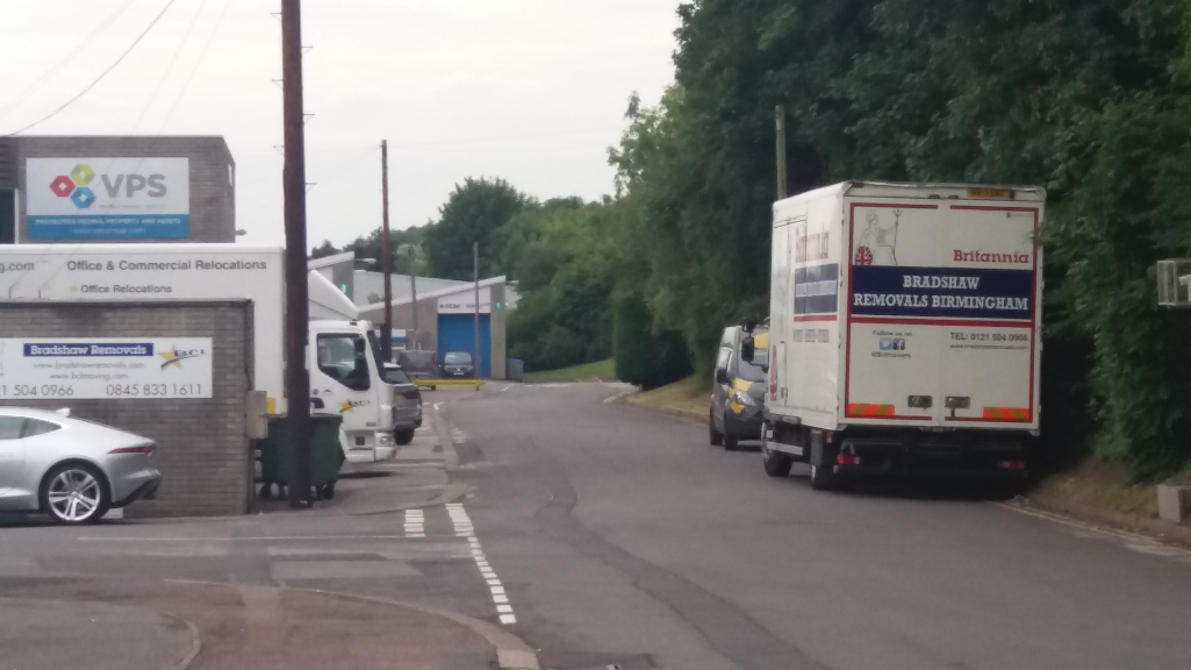 My own.